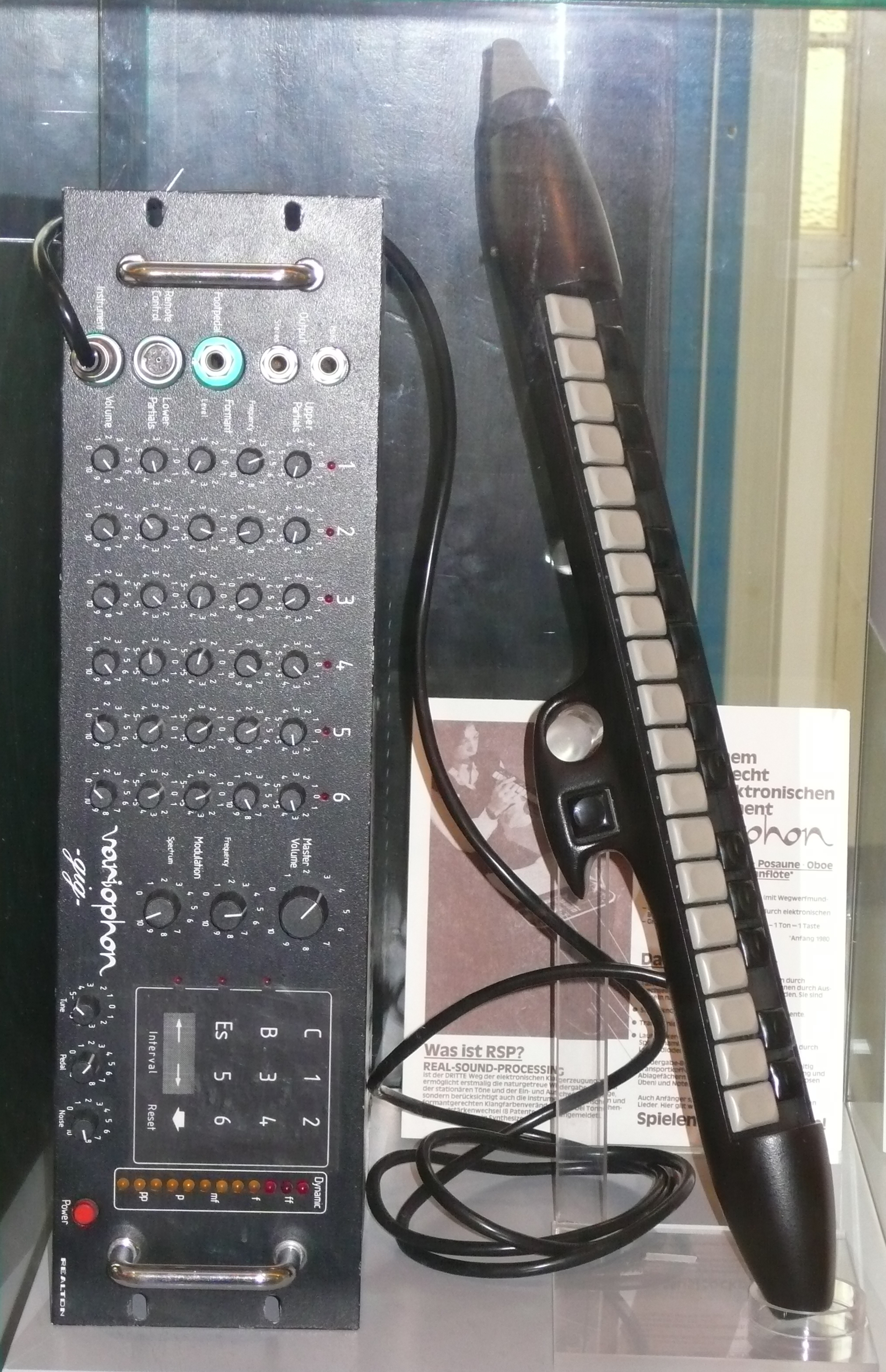 The Variophon is a wind-instrument synthesyzer developed at the Musicological Department of the Cologne University in the 1970s/1980s.